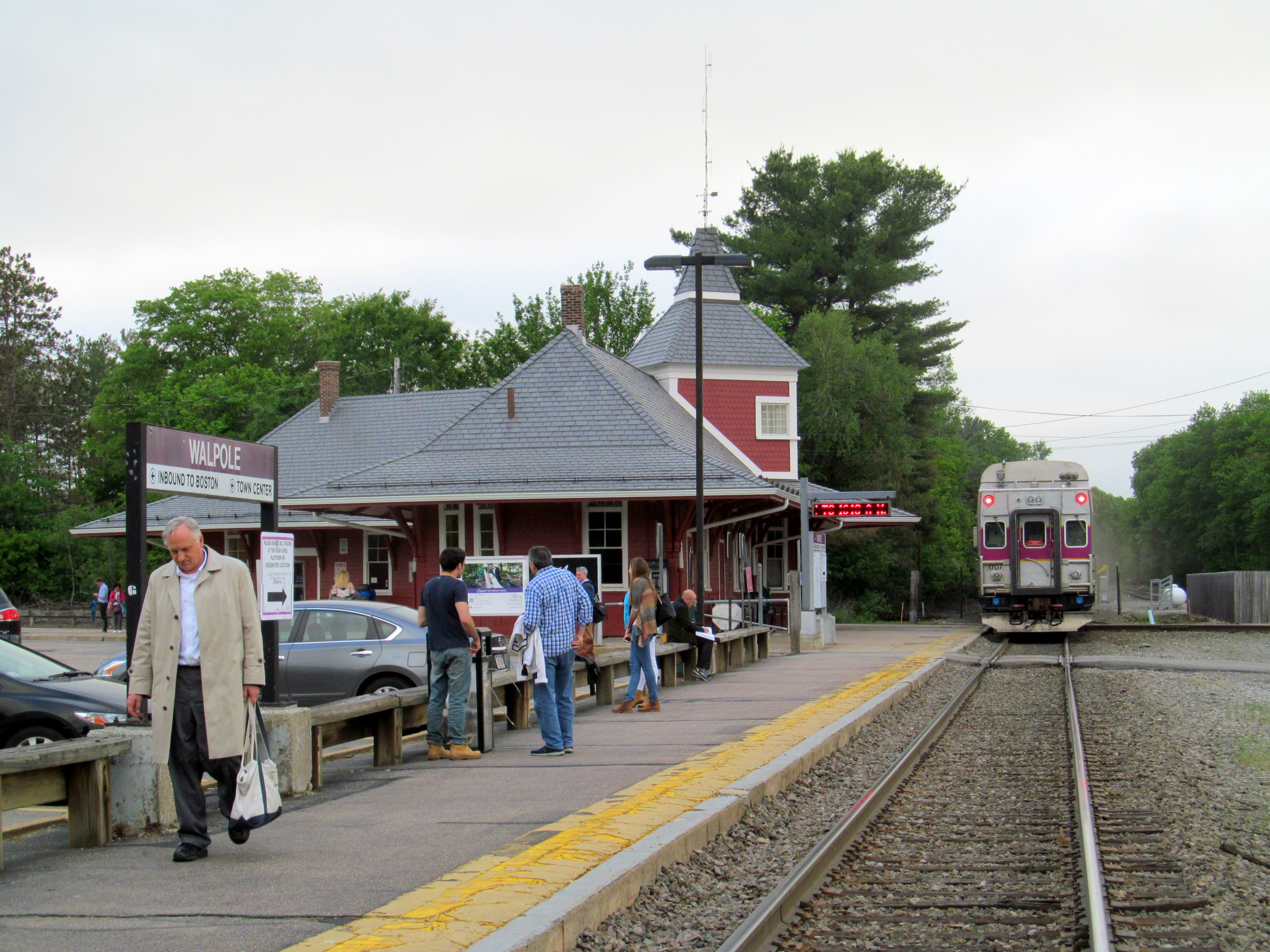 An outbound MBTA Franklin Line train leaving Walpole Union Station in May 2017